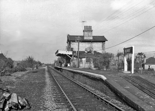 Bures Station. View northward, towards Sudbury and Cambridge; ex-Great Eastern, Cambridge - Haverhill - Sudbury - Marks Tey line. The line from Cambridge was closed as far as Sudbury on 6/3/67, but the eastern section Sudbury - Marks Tey through Bures has survived.